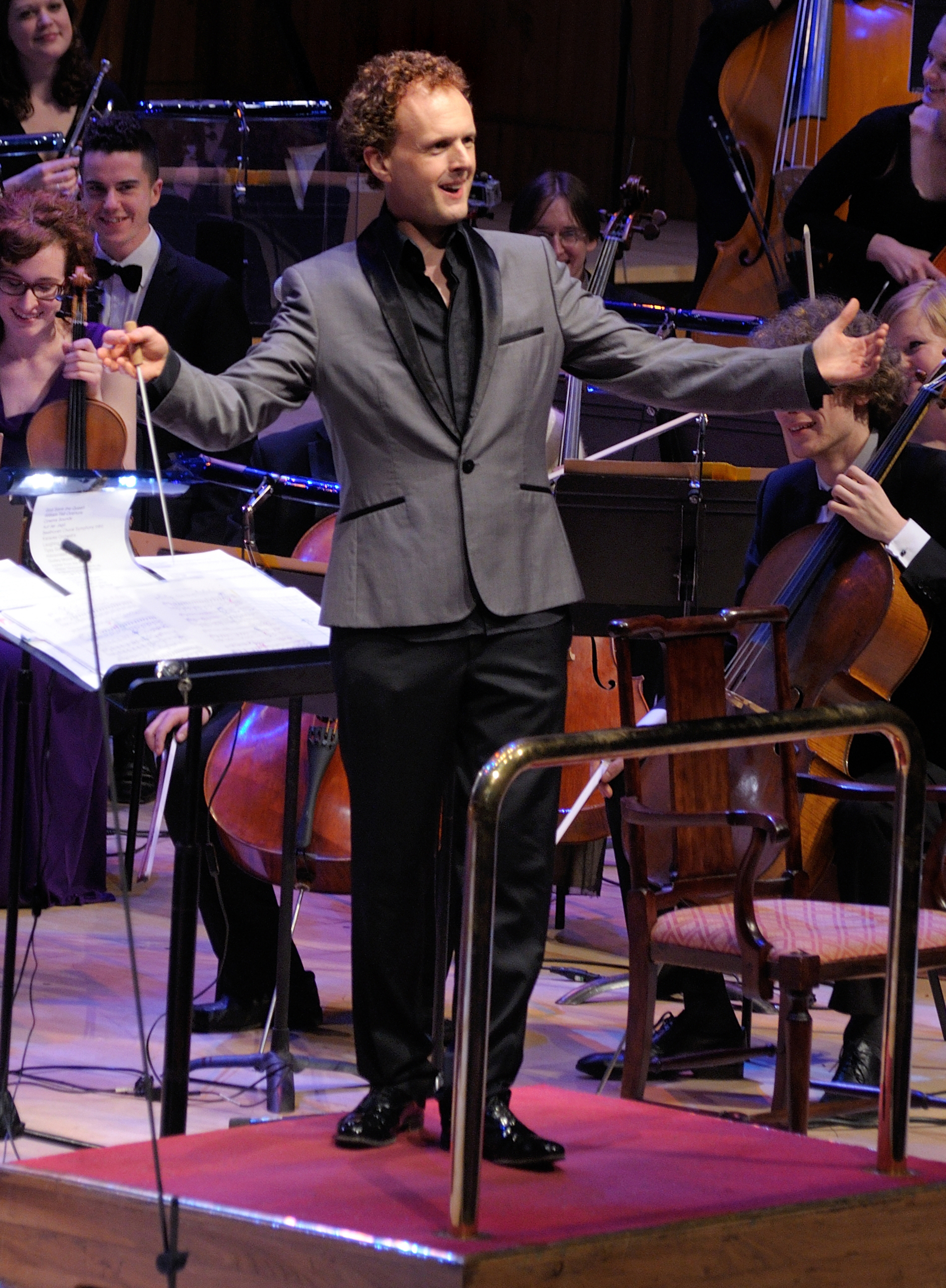 Conductor and comedian Rainer Hersch on stage at the Royal Festival Hall, London 2013